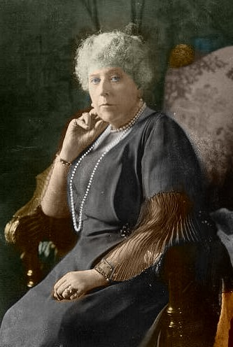 Princess Beatrice, daughter of Queen Victoria, coloured from black and white